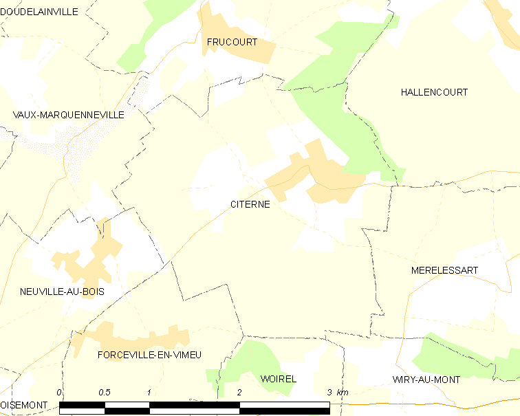 Map of French municipality Citerne